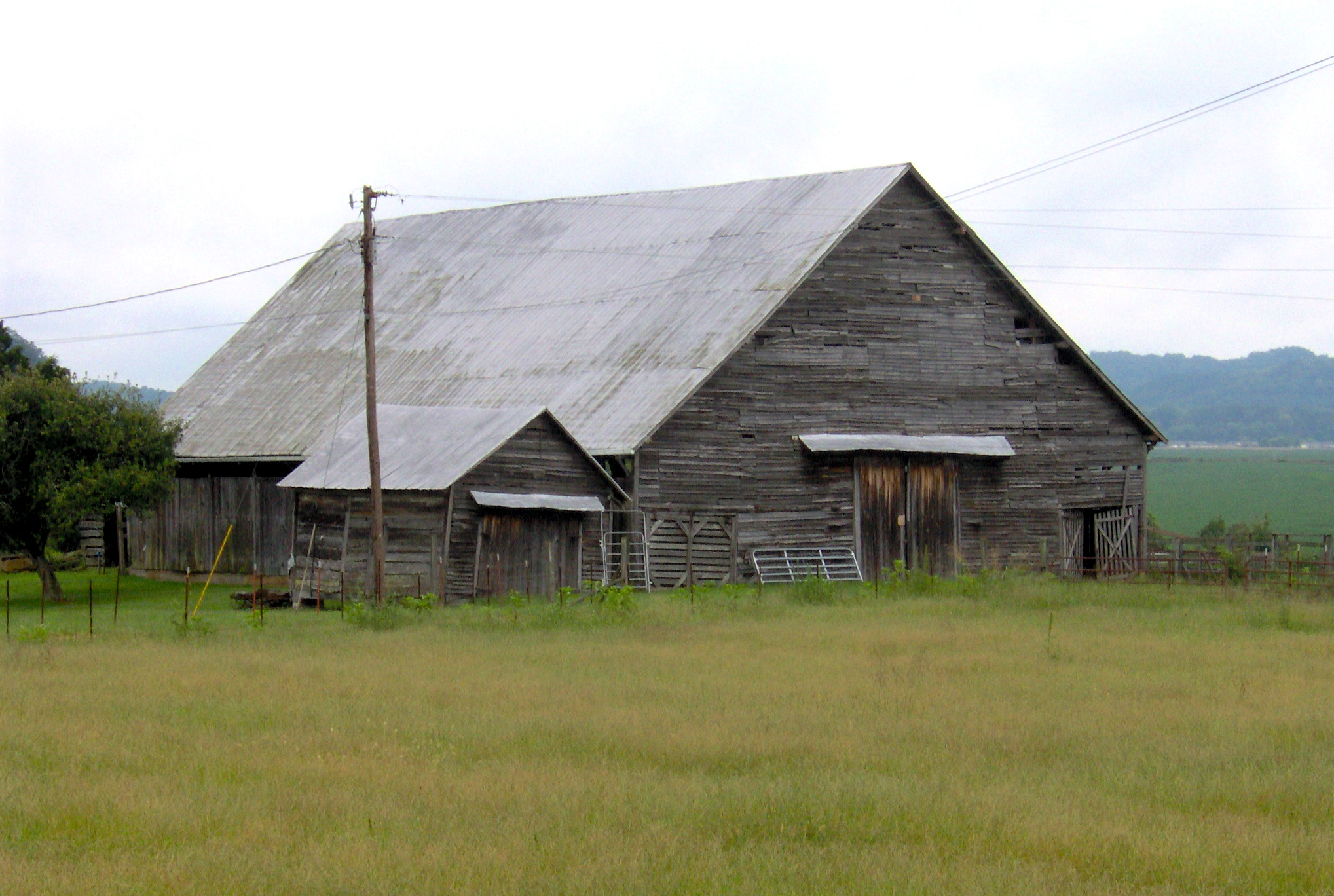 Plank house (left) and barn at Brabson's Ferry Plantation near the U.S. city of Sevierville, Tennessee. The plank house is believed to have been built in the 1790s.